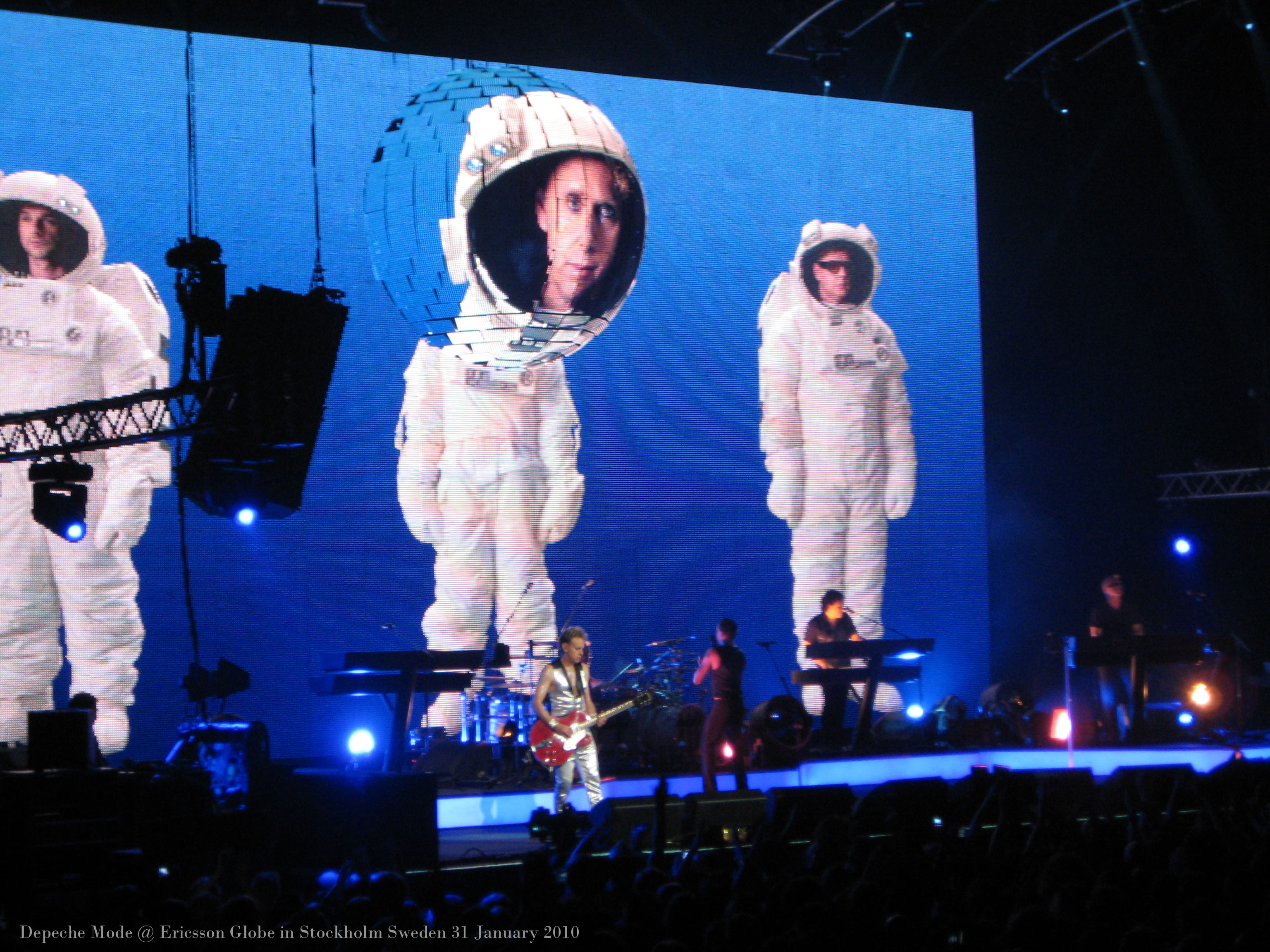 Depeche Mode @ Ericsson Globe in Stockholm Sweden 31 January 2010